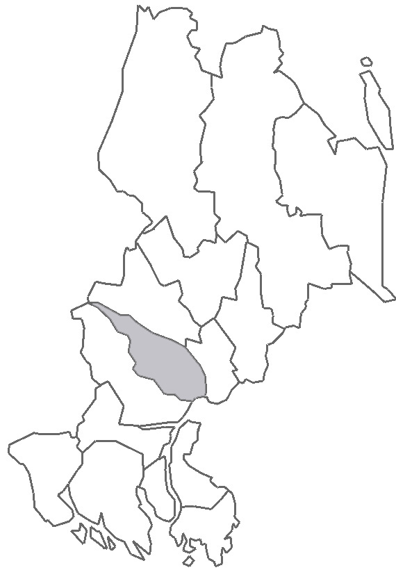 Map describing the location of Ulleråker Hundred in Uppsala County, Sweden.